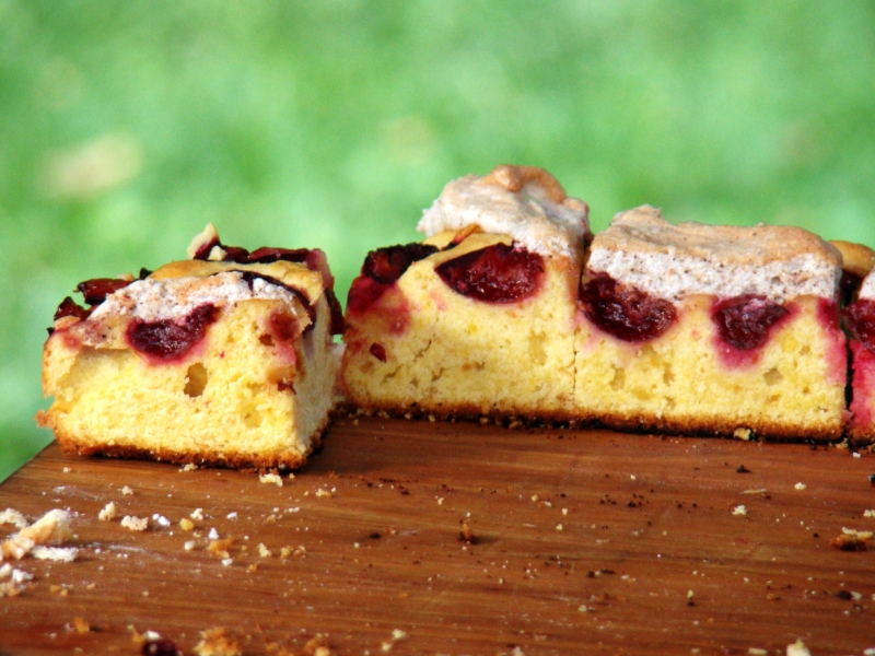 sanok